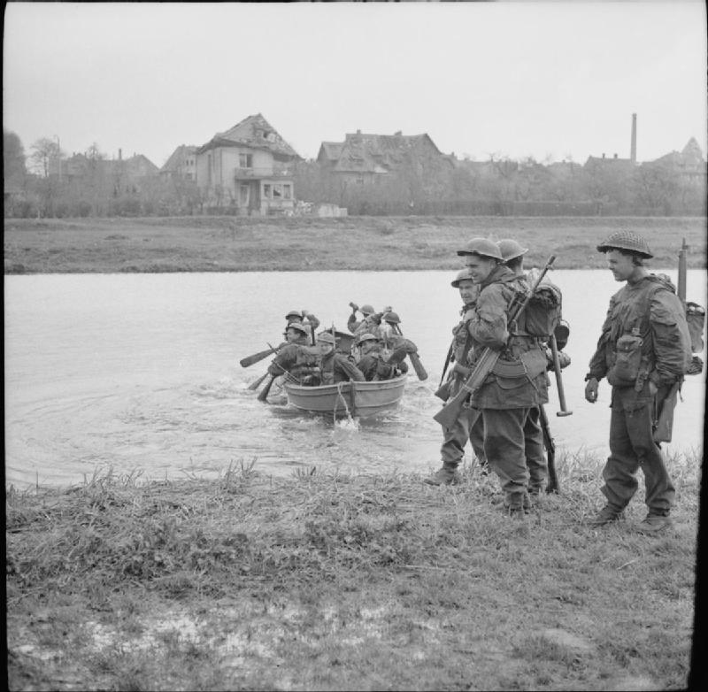 The British Army in North-west Europe 1944-45 Troops of the 7th Cameronians use a small boat to cross a canal in the town of Rheine, 3 April 1945.